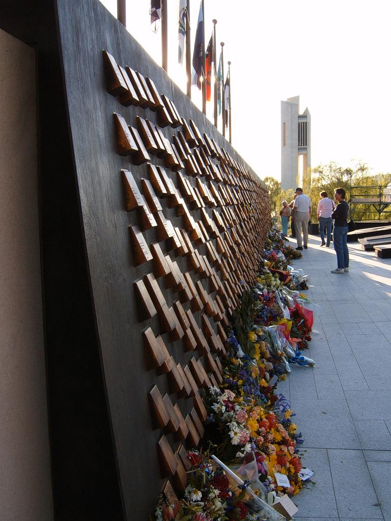 National Police Memorial Australia - Honour wall with National Carillon behind. The floral tributes were laid during the official opening ceremony on 29 September 2006.